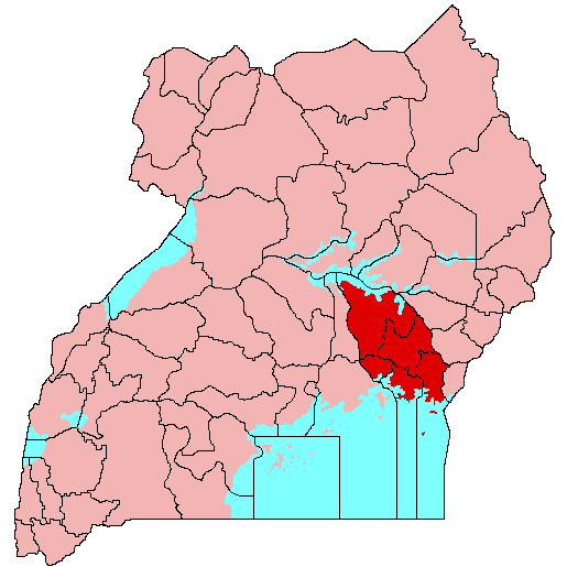 Ugandan kingdom of Busoga and its districts Created by editing picture